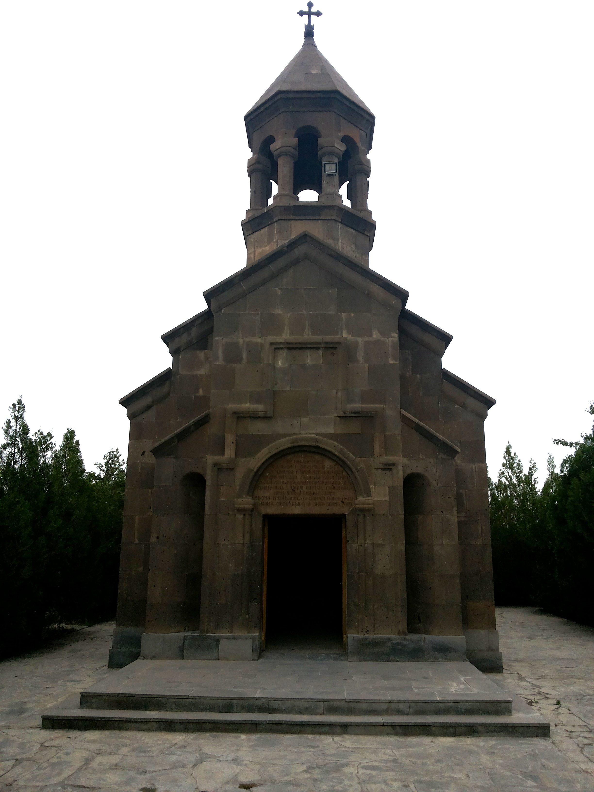 Սուրբ Ամենափրկիչ եկեղեցի (Մուսալեռ)